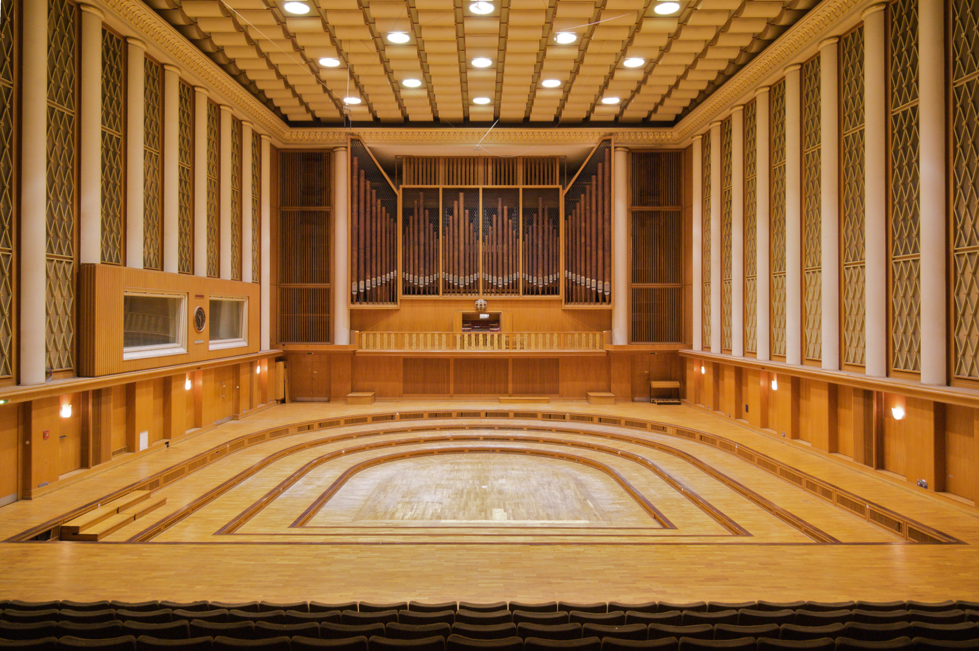 View from the stage in large broadcasting hall no.1This is a photograph of an architectural monument.